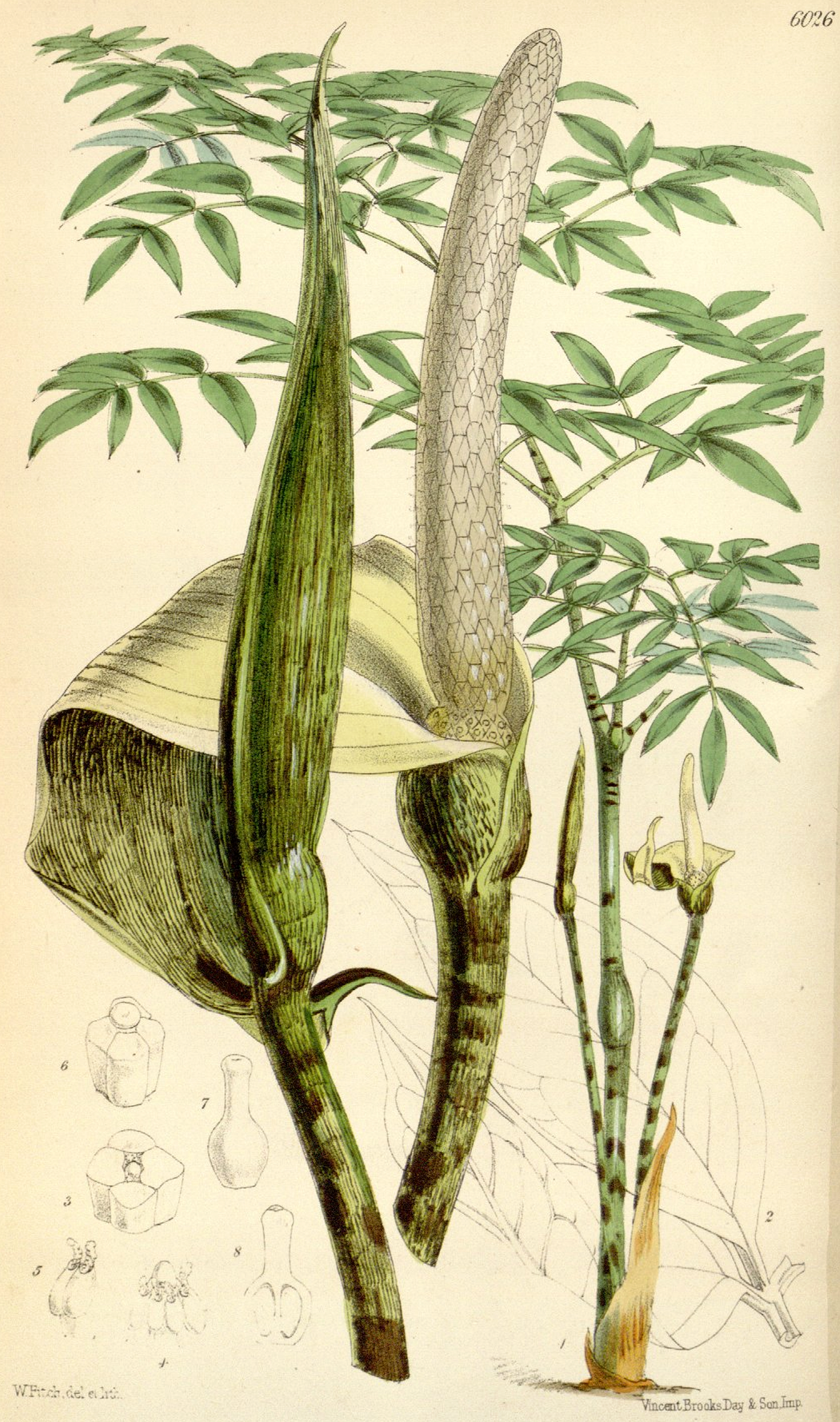 Gonatopus boivinii